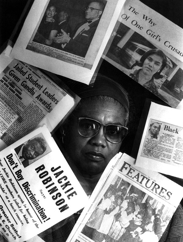 Persistent URL: Local call number: DUE025 Title: Patricia Stephens Due with articles about her civil rights involvement Date: ca. 2000 Physical descrip: 1 photoprint - b&w - 8 x 10 in. Series Title: Patricia Stephens Due Collection Repository: State Library and Archives of Florida 500 S. Bronough St., Tallahassee, FL, 32399-0250 USA, Contact: 850.245.6700